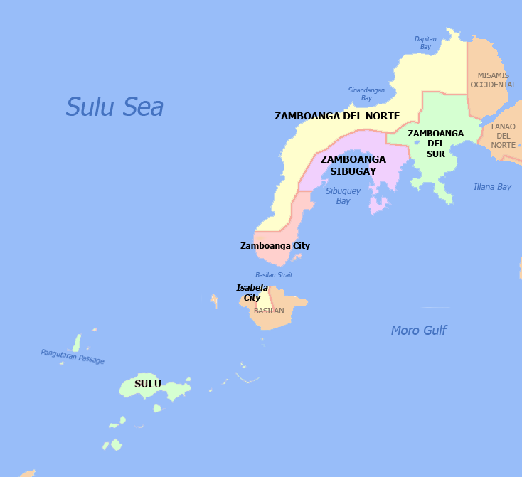 Political map of the Zamboanga Peninsula, Philippines. Showing Zamboanga del Norte, Zamboanga del Sur, Zamboanga Sibugay, Isabela City, and Zamboanga City. Used the map template Image:BlankMap-Philippines.png by User:TheCoffee.